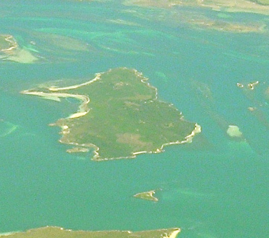 Great Dog Island Tasmania view from south east